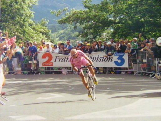 Marco Pantani riding in 2000 Tour de France.